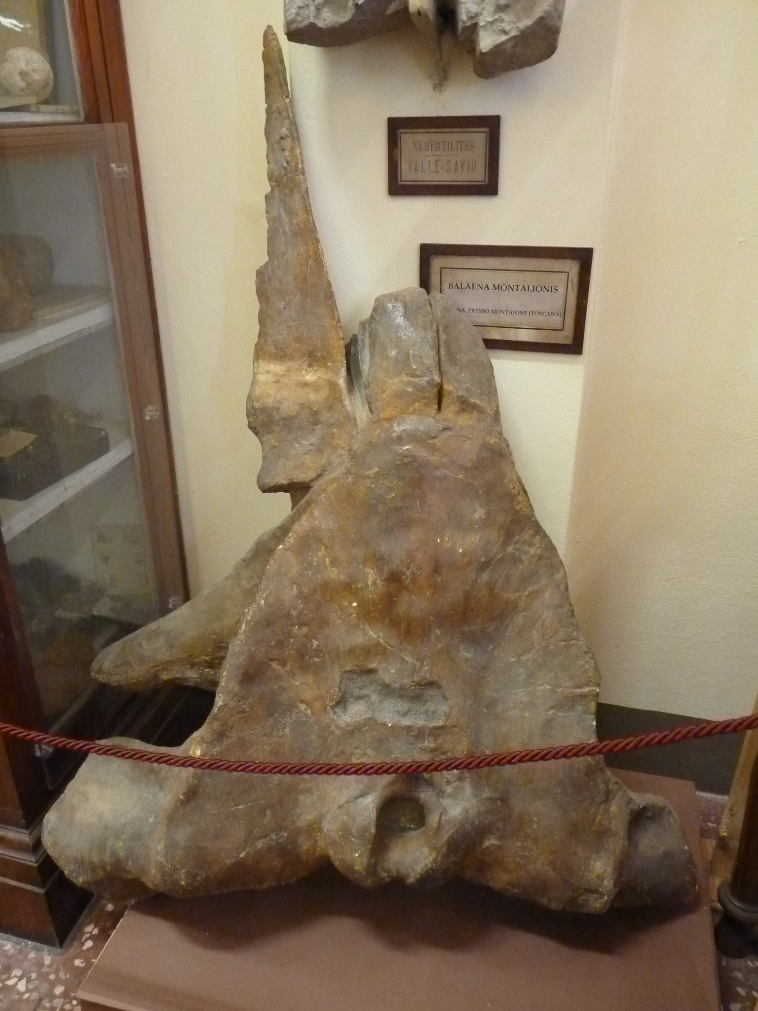 Partial skull of Balaena montalionis, an extinct baleen whale. Pliocene from Montaione, near Florence (Tuscany, Italy). Museo Geologico Giovanni Capellini, Bologna (Italy).